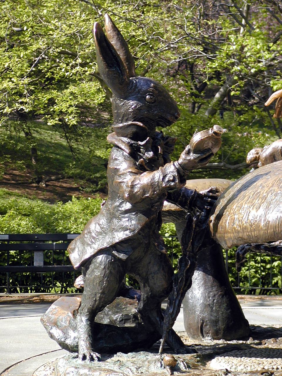 The Rabbit portion of the Alice in Wonderland sculpture by Jose de Creeft (1959), Central Park, NYC. Other title: Margaret Delacorte Memorial